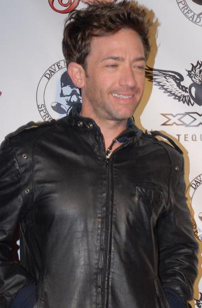 American actor David Faustino. Taken at a party in October 2007.